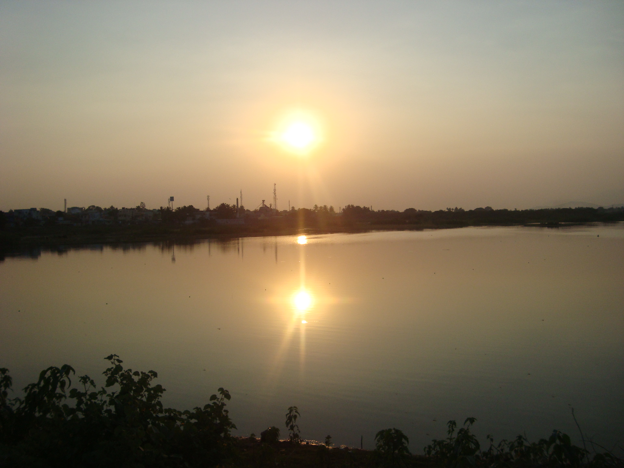 a beautiful sunset on chinnasalem lake,villupuram district